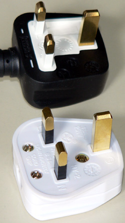 Moulded and rewireable BS 1363 plugs